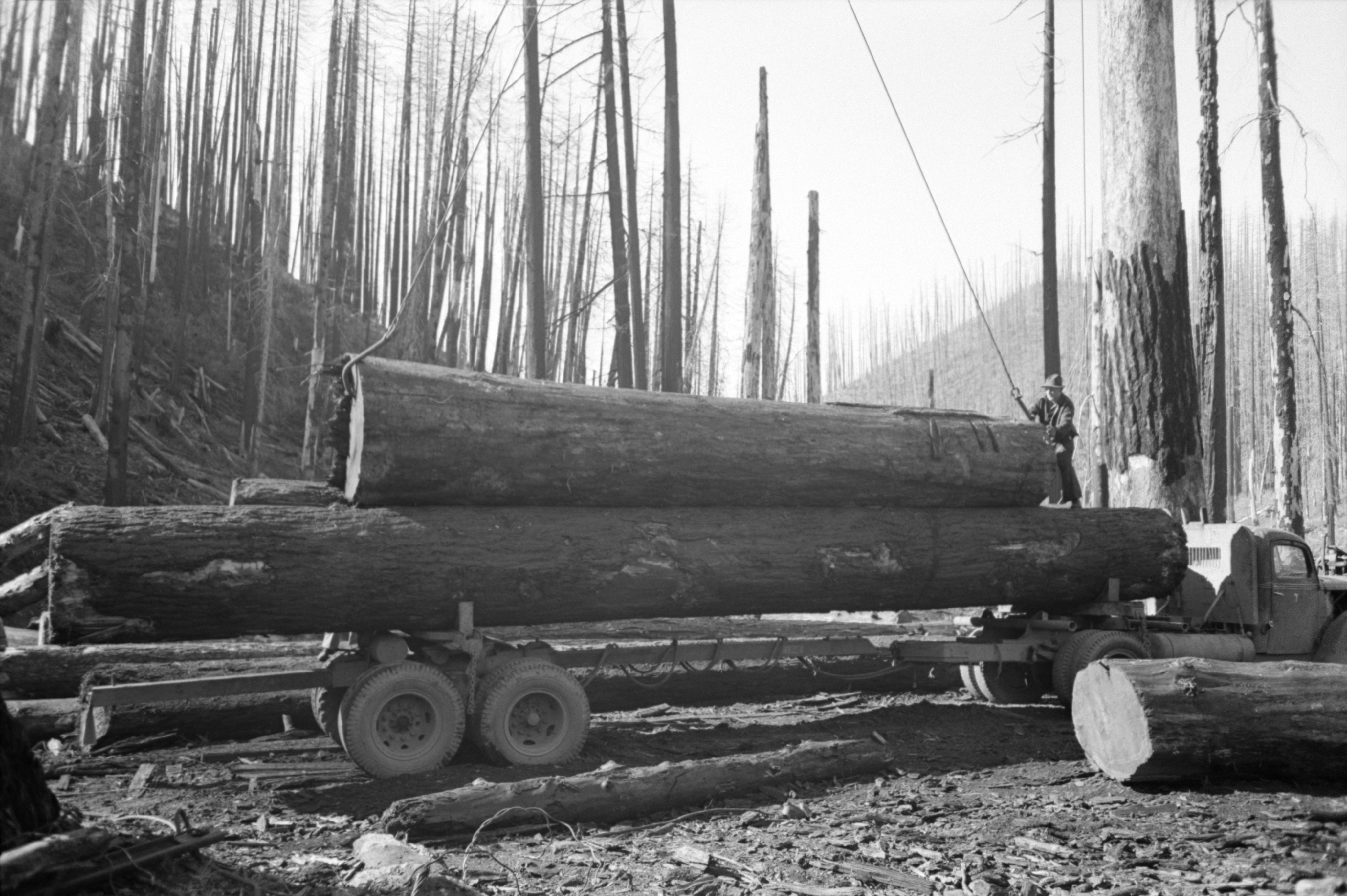 Loading logs onto truck for transportation to mill. Gyppo logging operations, Tillamook County, Oregon. The small, independent loggers are called gyppos.